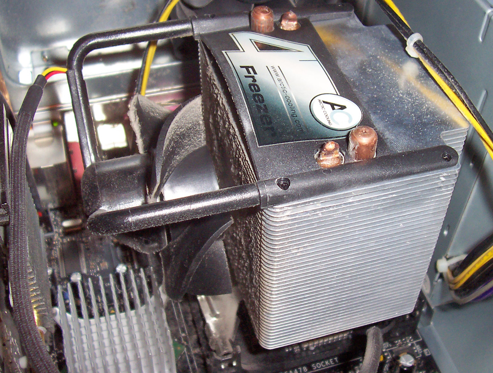 Socket 478 CPU cooler "Arctic Cooling Freezer 4" features 2 heat pipes, 5000 cm² surface area and 40 fins